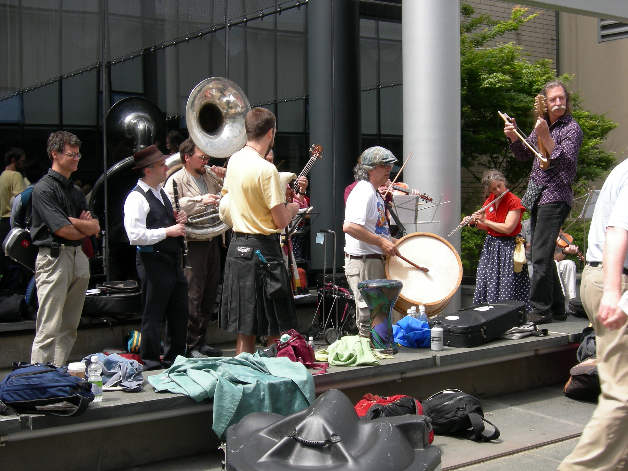 Band accompanying impromptu circle dance on Kreielsheimer Promenade, Seattle Center, during Northwest Folklife Festival.